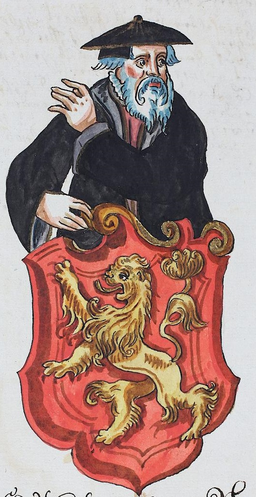 Berthold of Zahringen. He is not numbered, unfortunately, but the source says that he is married with Agnes, daughter of Rudolf of Rheinfelden. For this, he can only be Berthold II of Zahringen